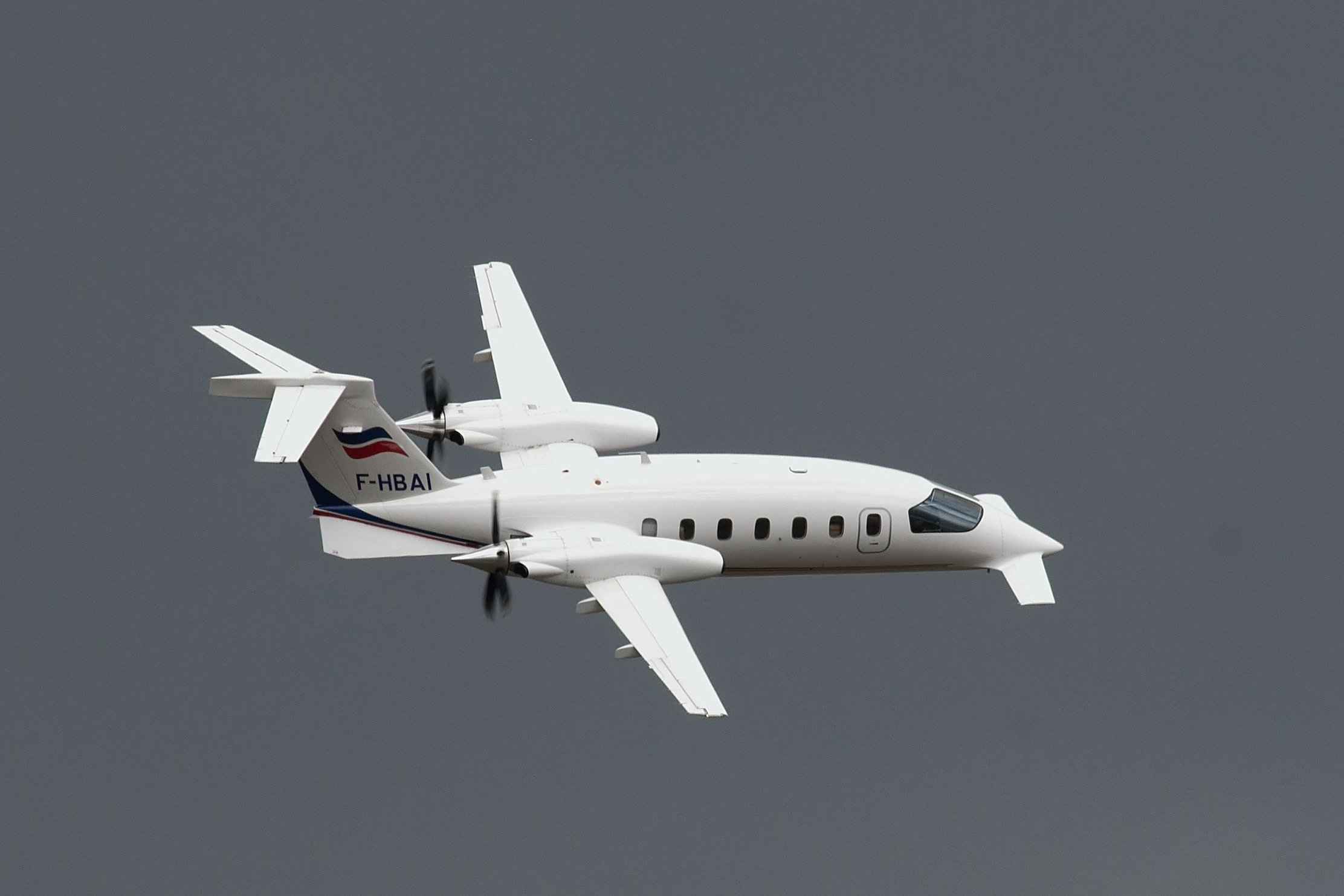 Piaggio P-180 Avanti in in-flight demonstration at Rennes AirShow 2010